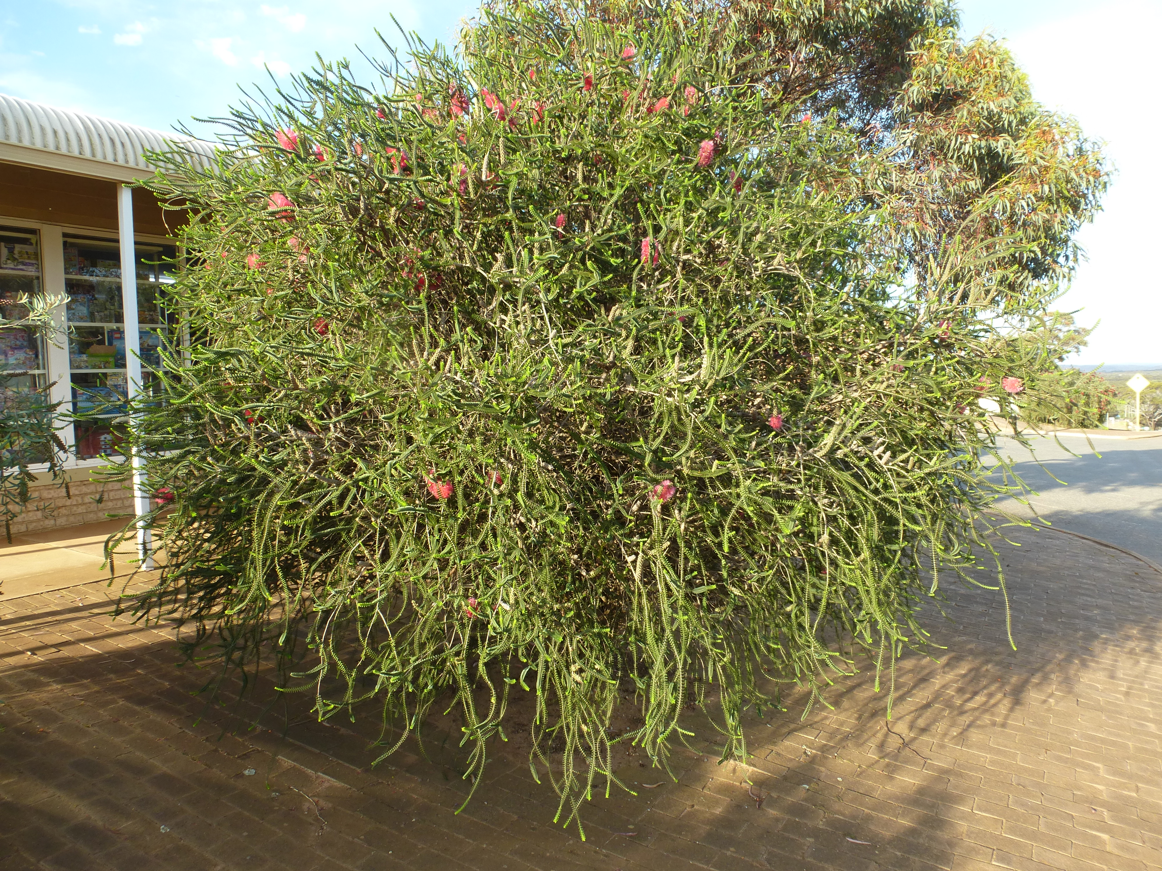 Melaleuca coccinea growing as a street tree in Ravensthorpe